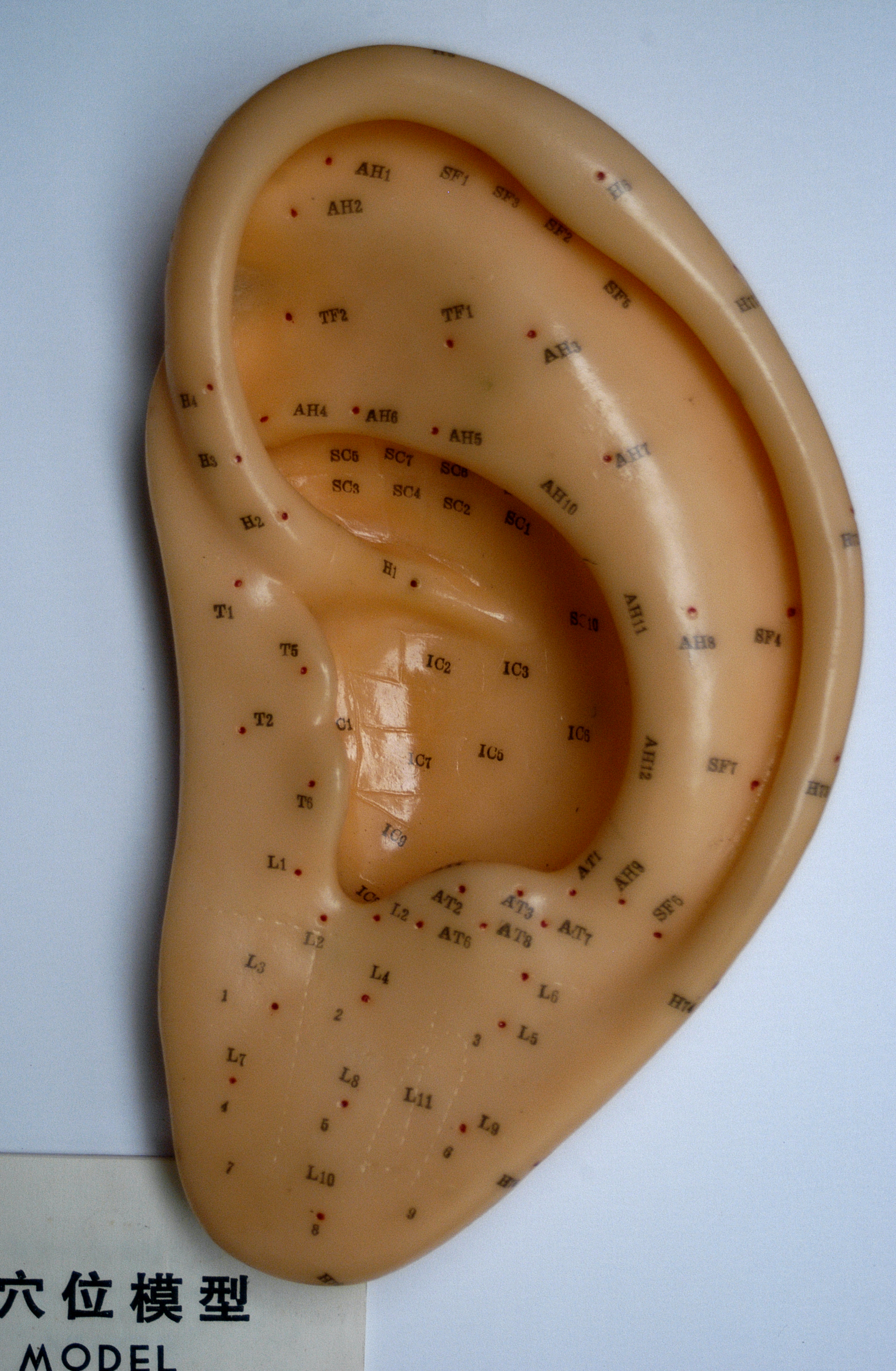 Ear acupuncture model - Auriculotherapy